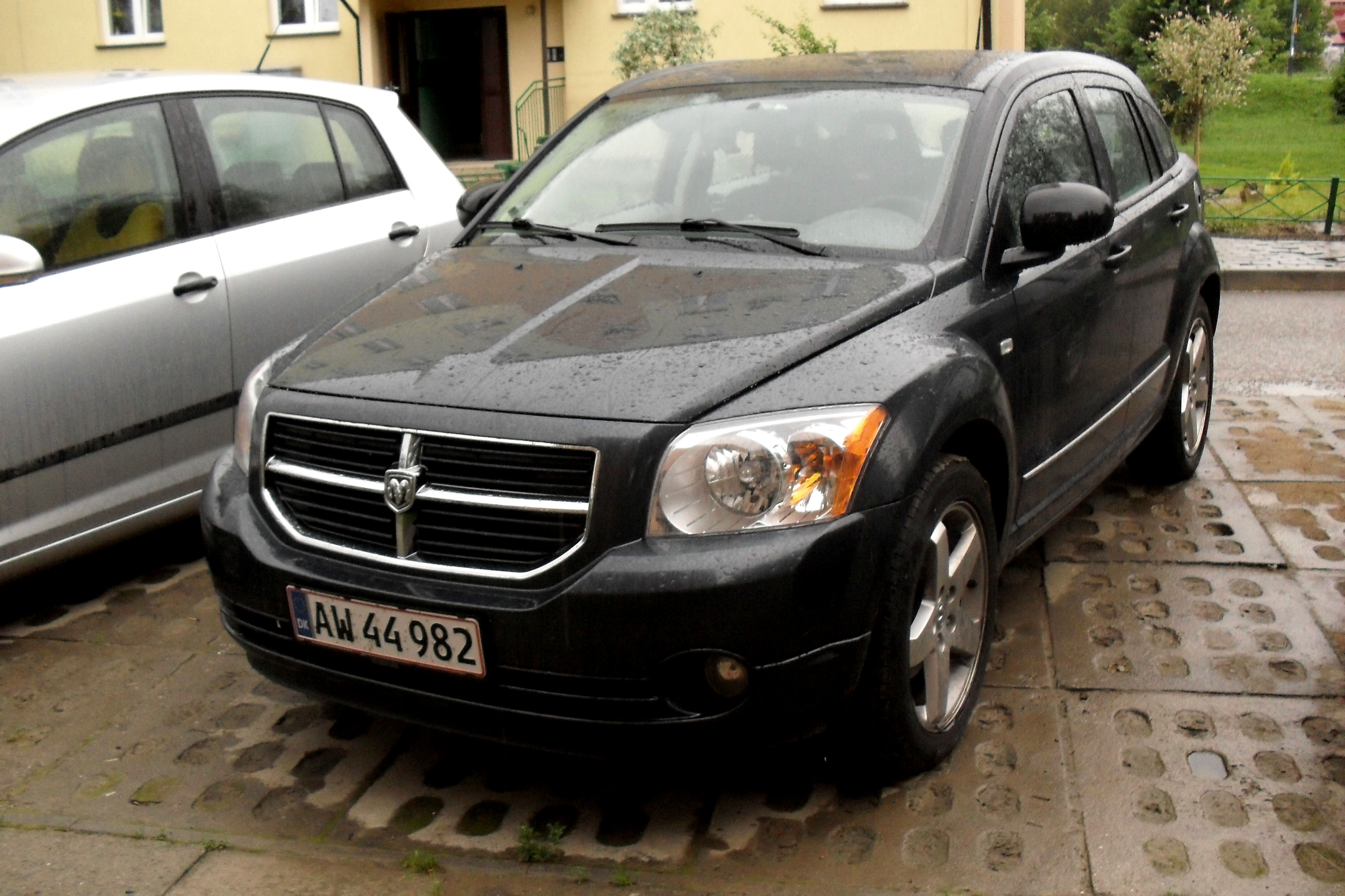 Dodge Caliber seen in Jasło, Poland.